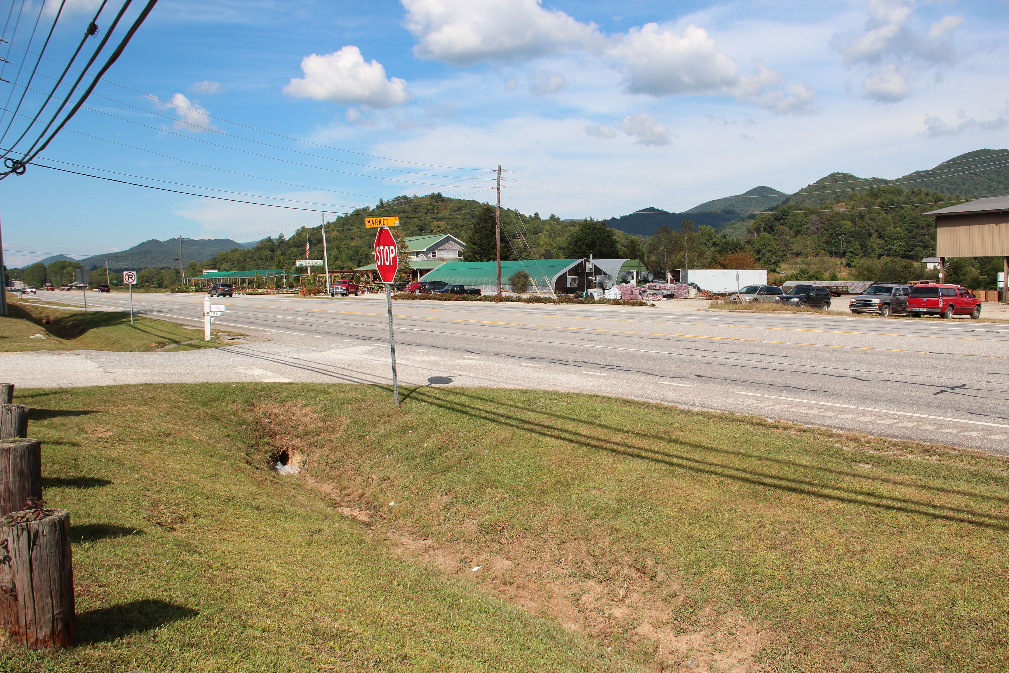 Near Mountain City